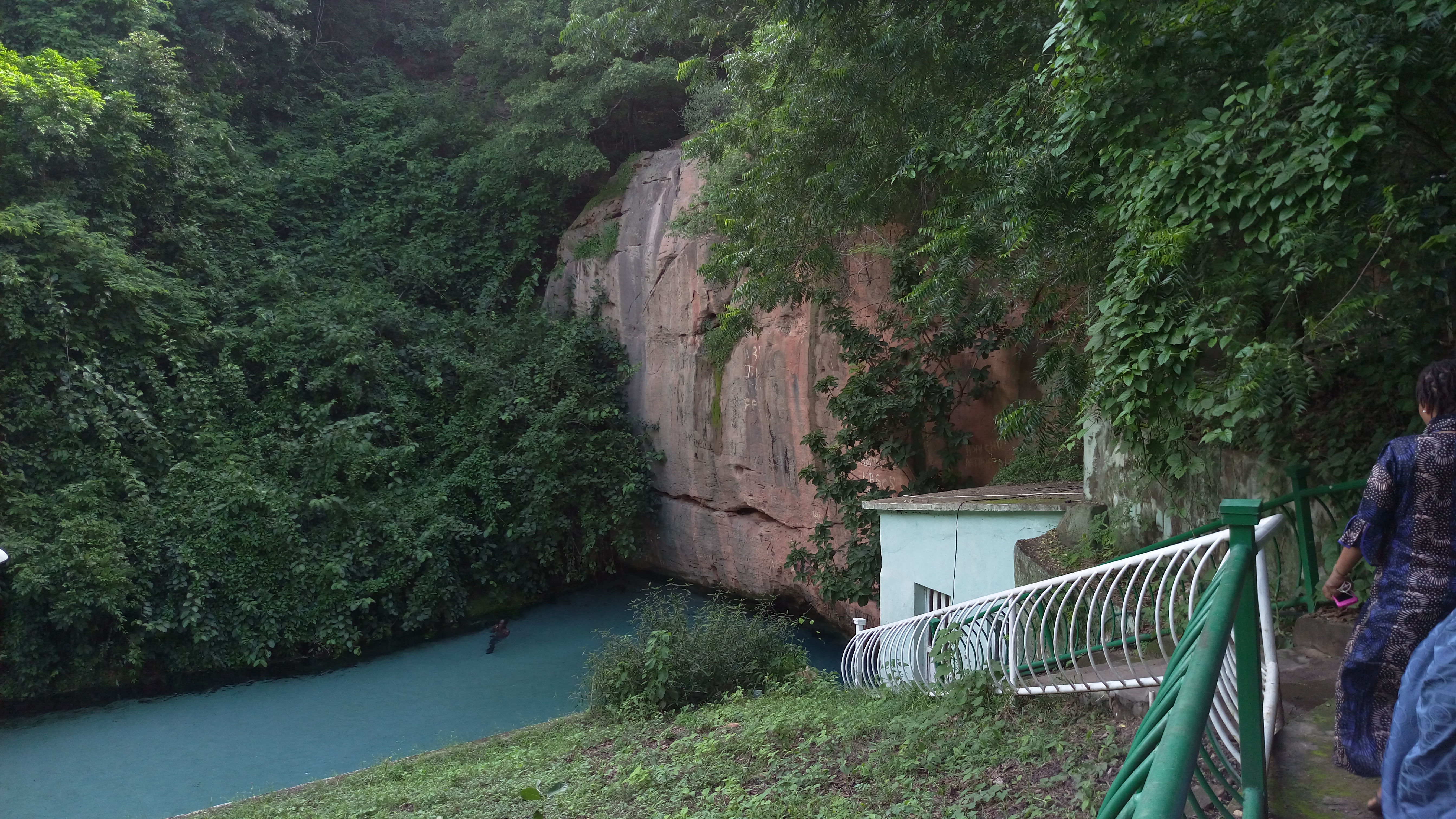 The clear warm lake from the Wikki Spring at the Yankari National Park and game reserve [Bauchi State]